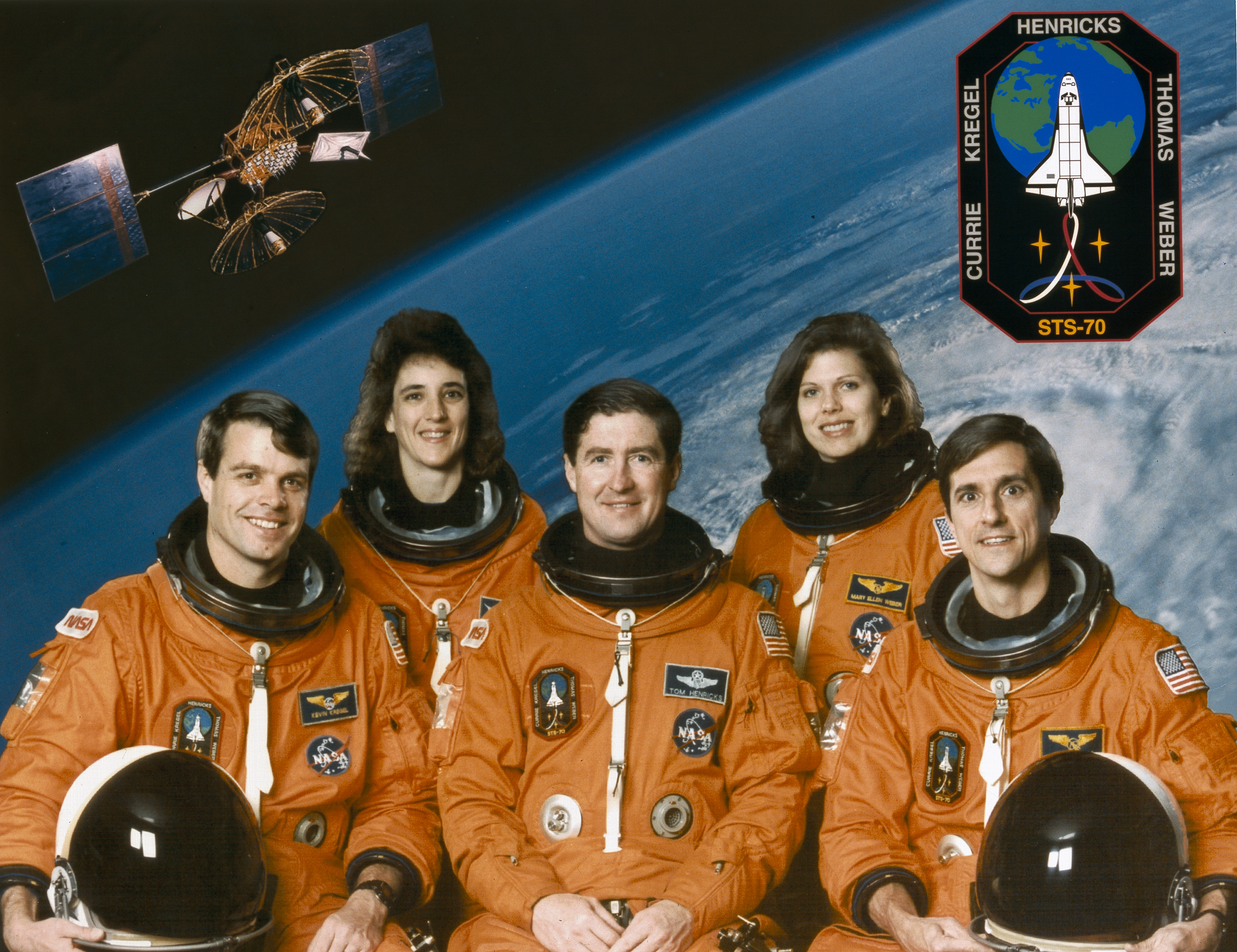 The crew assigned to the STS-70 mission included (front left to right) Kevin R. Kregel, pilot; Nancy J. Currie, mission specialist; Terrence T, Henricks, commander; Mary Ellen Weber, mission specialist, and Donald A. Thomas, mission specialist. Launched aboard the Space Shuttle Discovery on July 13,9:41:55.078 am (EDT), the STS-70 mission's primary payload was the Tracking and Data Relay Satellite-G (TDRS-G).